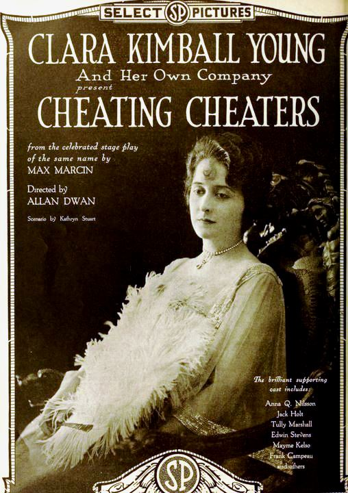 Ad for the American film Cheating Cheaters (1919) with Clara Kimball Young, on page 406 of the January 25, 1919 Moving Picture World.